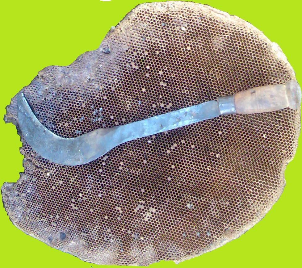 Honeycomb